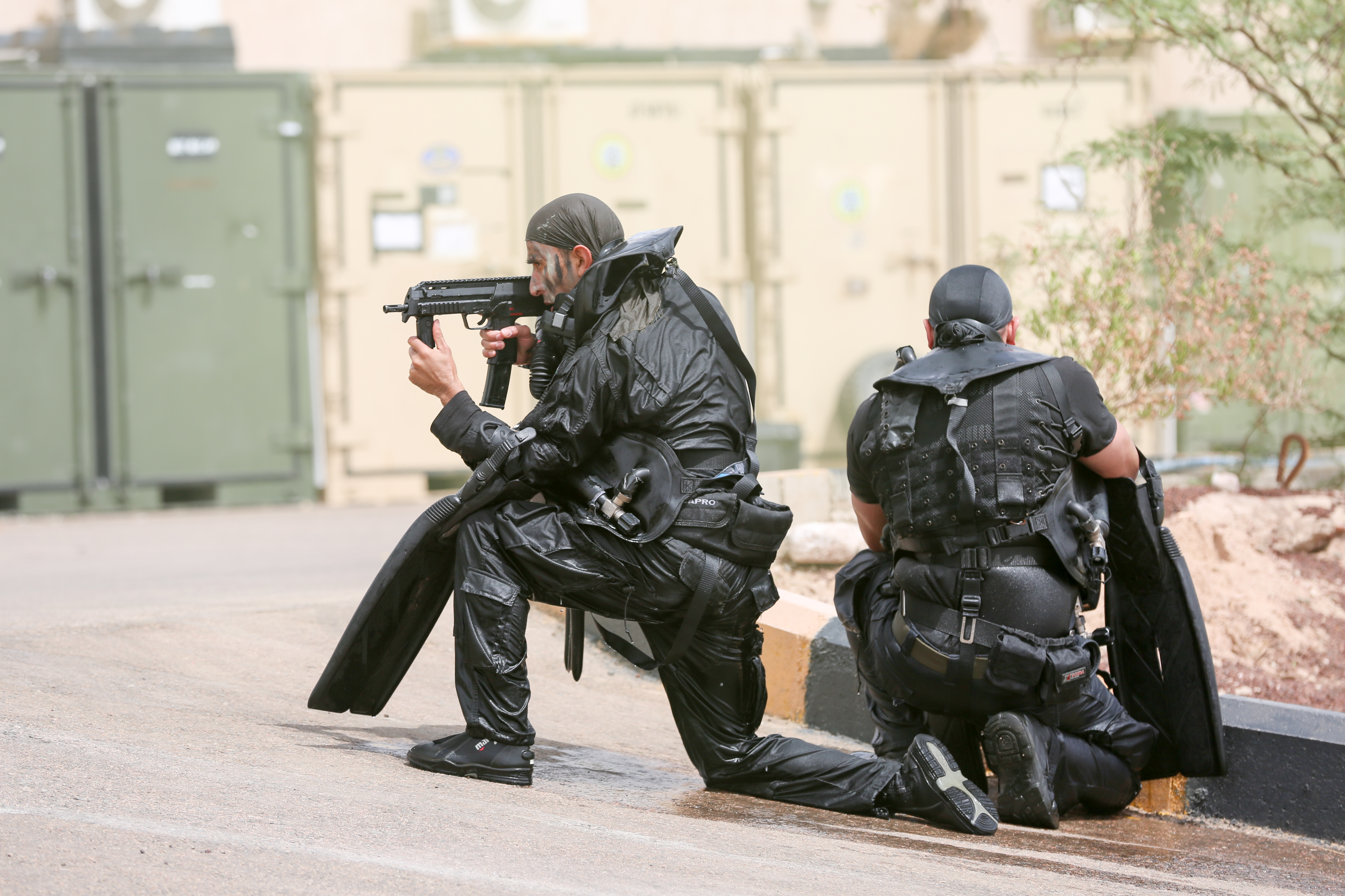 Commandos from the Royal Jordanian Armed Forces take up positions after emerging from the waters off Aqaba during a massive military demonstration in front of dignitaries and media, May 18. HRH Prince Feisal, the Supreme Commander of the JAF, Chairman of the Joint Chief-of-Staff Gen. Mashal Al Zaben and Gen. Lloyd Austin III, head of the U.S. Central Command, were among those who attended the culminating event of the two-week, multinational Exercise Eager Lion 2015. In addition to the U.S. and the Hashemite Kingdom of Jordan, participating nations included Australia, Bahrain, Belgium, Canada, Egypt, France, Iraq, Italy, Kuwait, Lebanon, Pakistan, Poland, Qatar, Saudi Arabia, the United Arab Emirates, the U.K. and representatives from NATO.